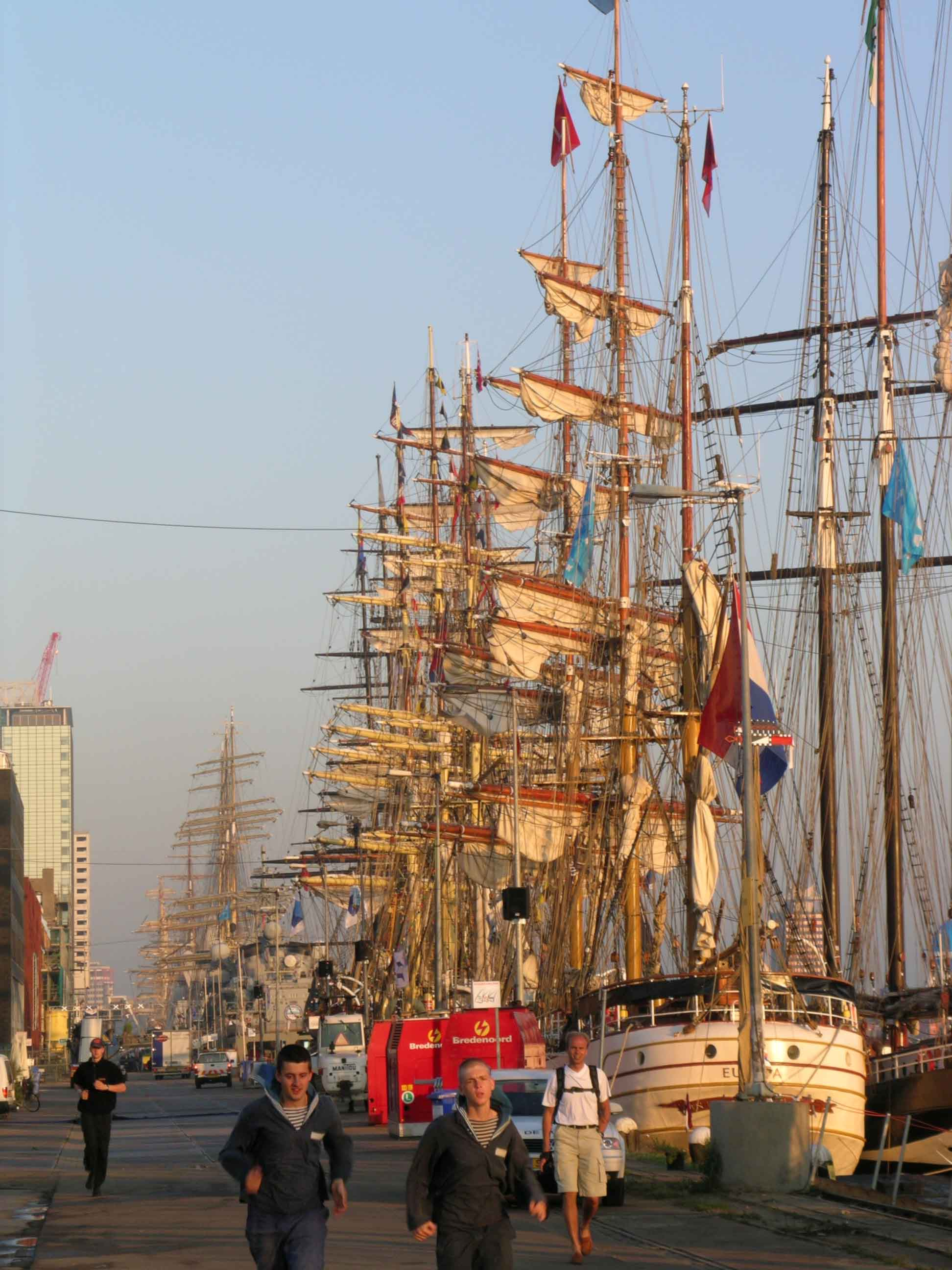 Photograph by Dirk van der Made (User:DirkvdM - for more photos see user:DirkvdM/Photographs). Jogging sailors at the nautical event Sail Amsterdam, 18 August 2005.